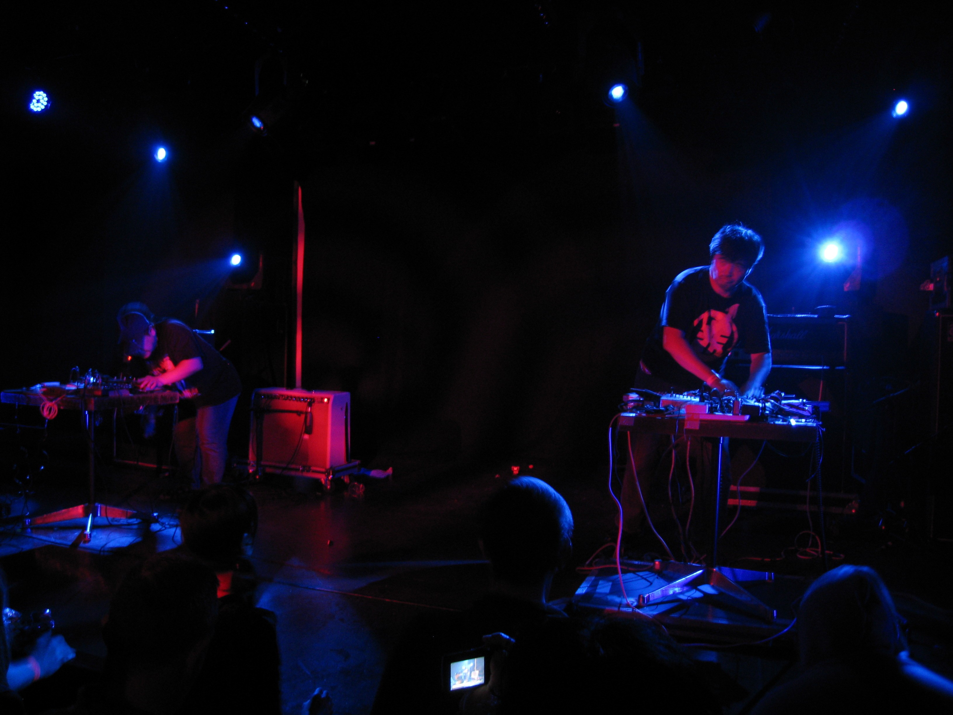 Incapacitants performing live at LUFF 2010 in Lausanne, Switzerland